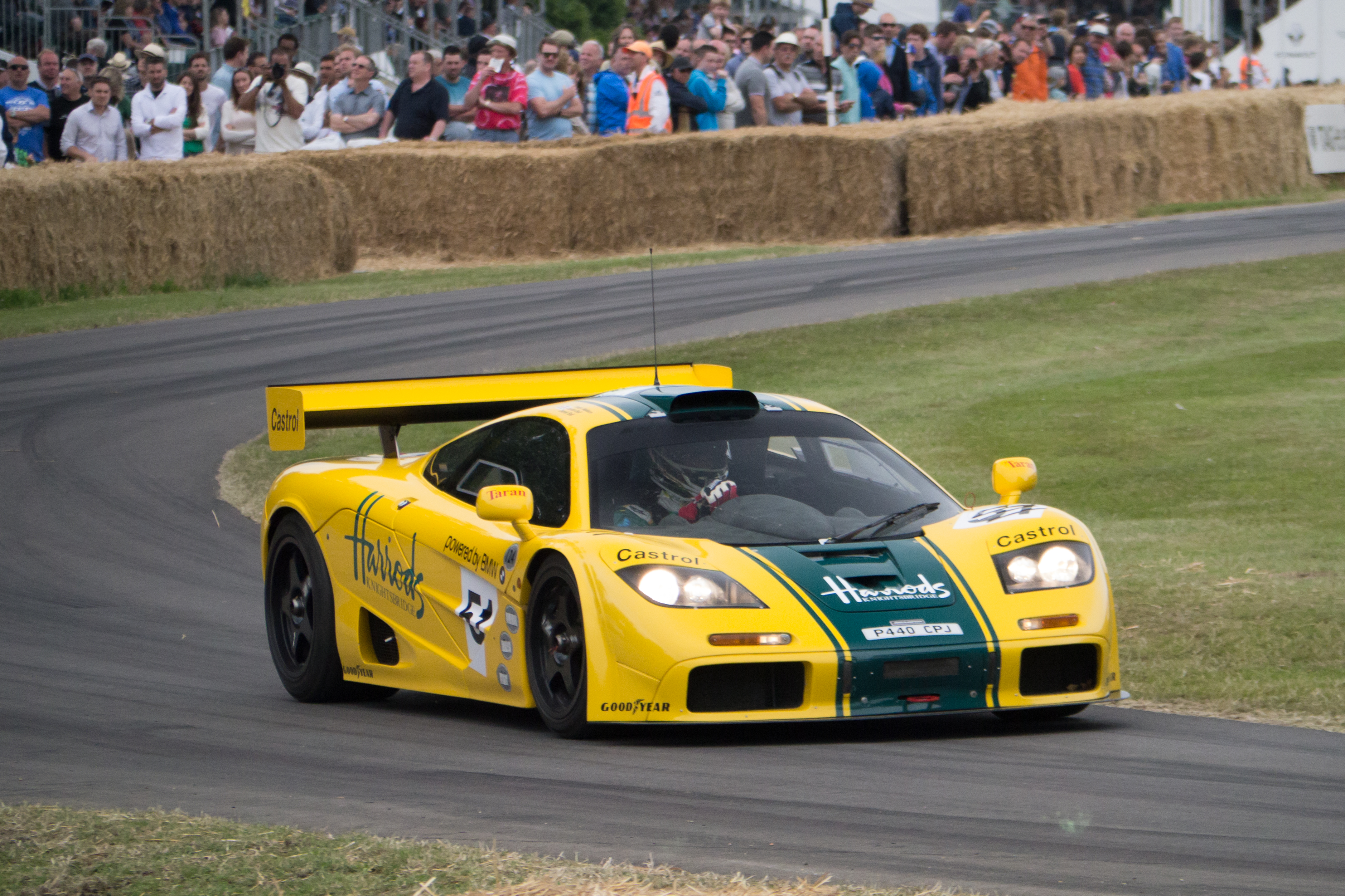 Derek Bell with his son Justin came third at Le Mans in this car in 1995